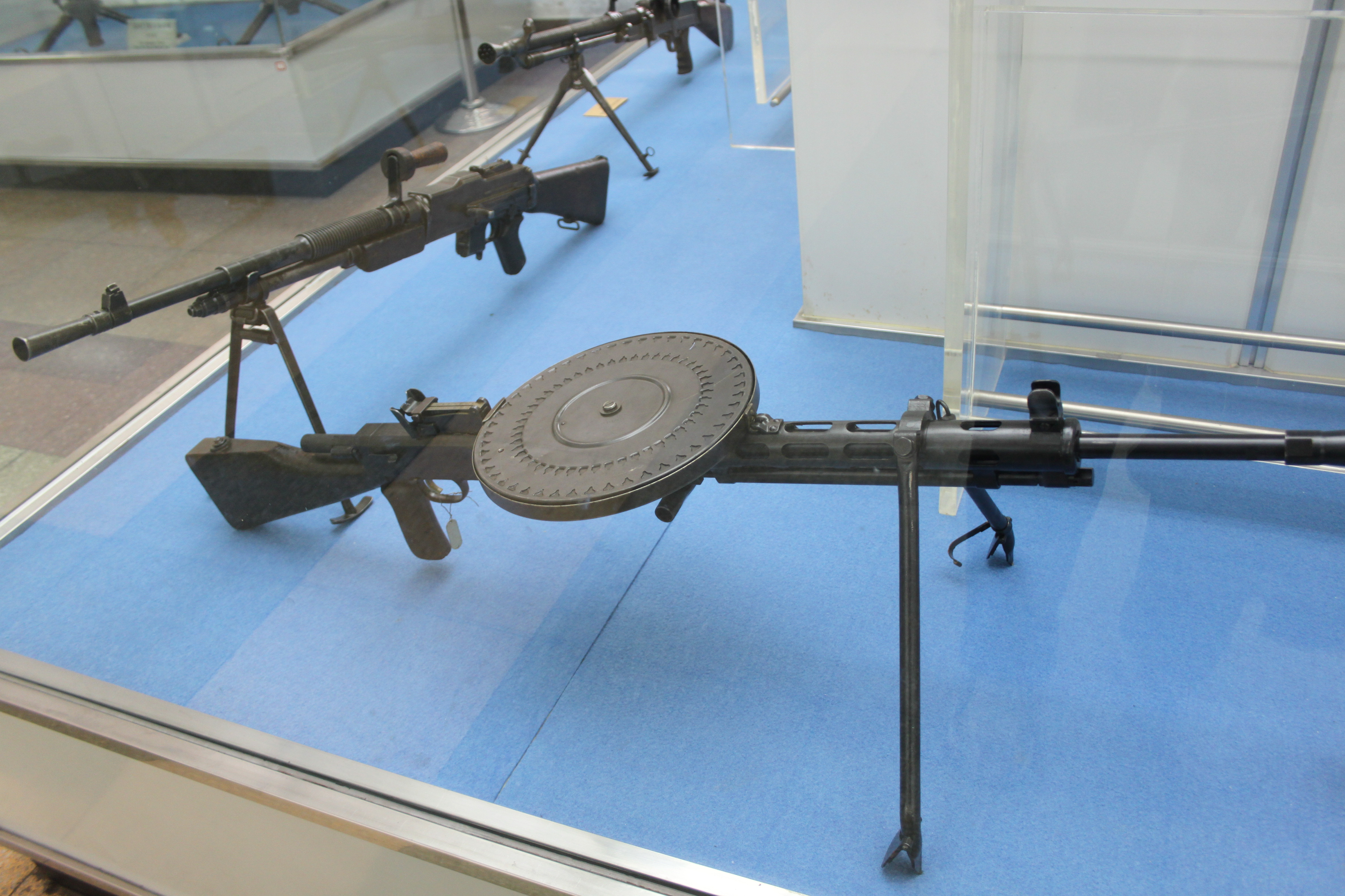 Military Museum: Modern Weapons, Small Arms Gallery. Complete indexed photo collection at .